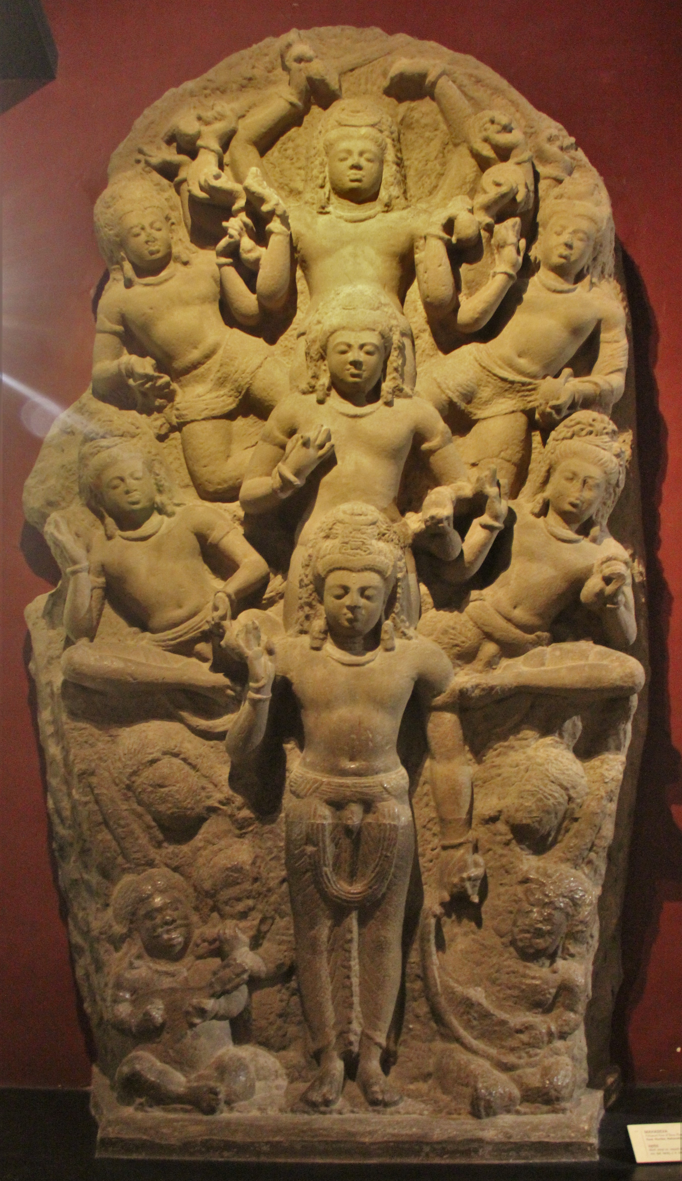 Plaster replica of "Ashtmurti" form of Shiva. 6th century CE.On display in the "Prince of Wales Museum, Mumbai" (Chhatrapati Shivaji Maharaj Vastu Sangrahalaya).